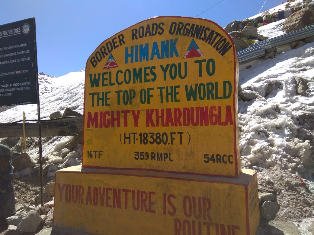 Mighty Khardungla